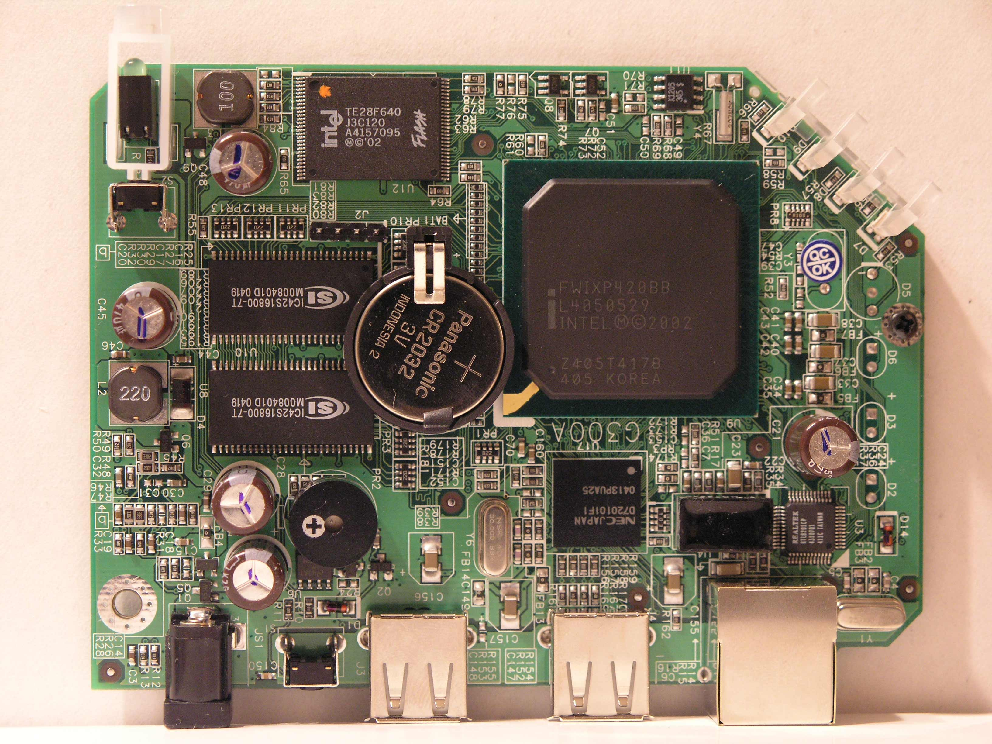 Front-view image of an NSLU2 motherboard.